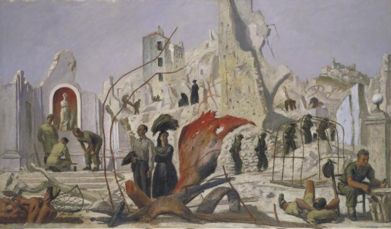 Liberation image: A view of the remains of an Italian village with soldiers and civilians moving around the ruins of the bombed houses and church.